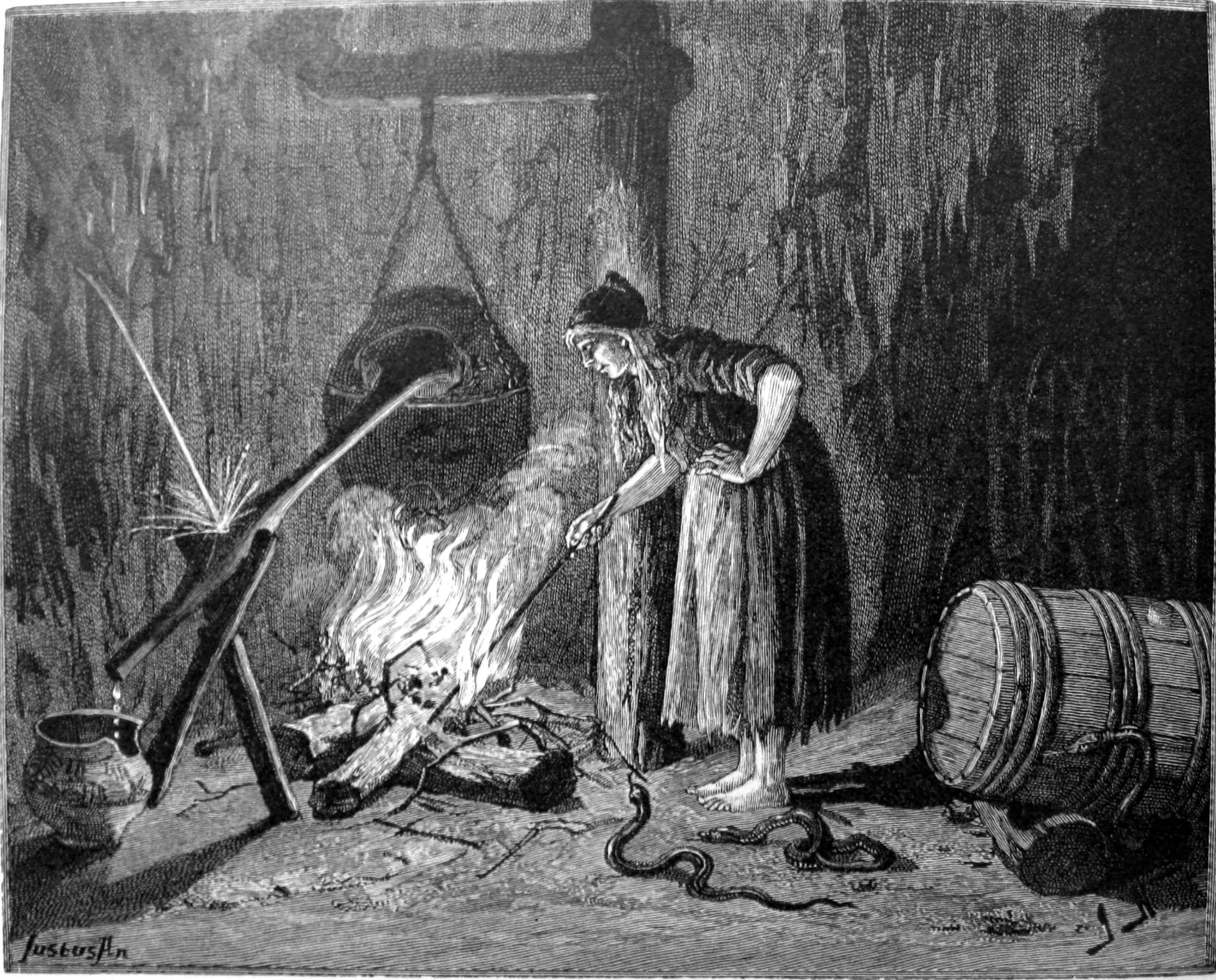 The engraving shows a woman tending to a fire. In the bottom right corner there is the signature of Jenny Nyström (1854-1946), the illustrator. In the bottom left corner there is the signature of Justus Peterson (1860-1889), the xylographer. The image list on page 468 in the book describes this image as "Sinmara".